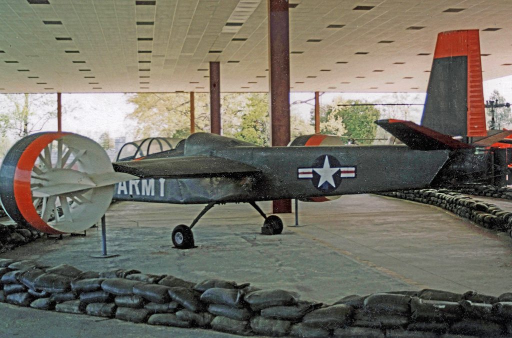 Doak VZ-4 VTOL STOL research aircraft US Army preserved at Fort Eustis Virginia